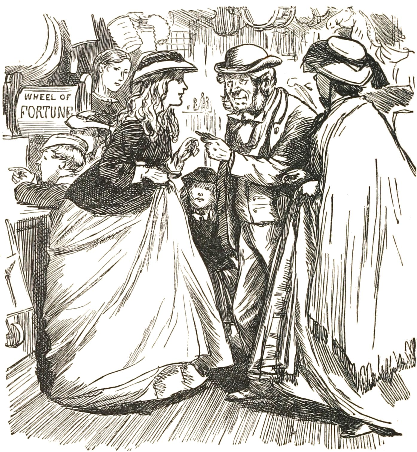 A needle case, that under my nose you gave to Miss Prettyman.jpg; /190. Mrs Caudle's curtain lectures, book by Douglas William Jerrold, a comic series originally published in Punch magazine